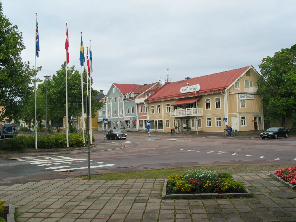 The city of Torsby in Sweden